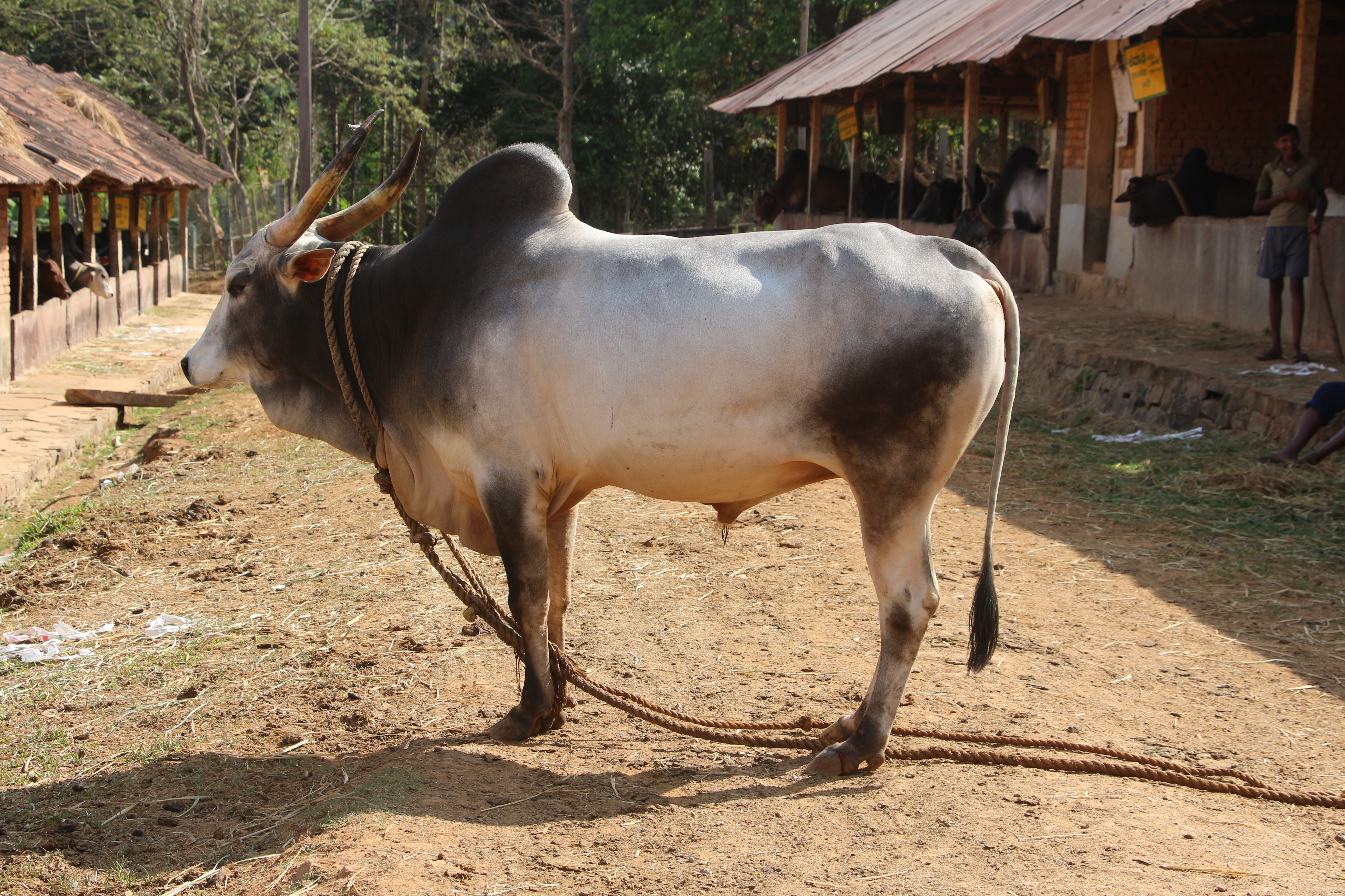 Indian cow breed Krishnaಕನ್ನಡ: ಭಾರತೀಯ ಗೋತಳಿ ಕೃಷ್ಣ